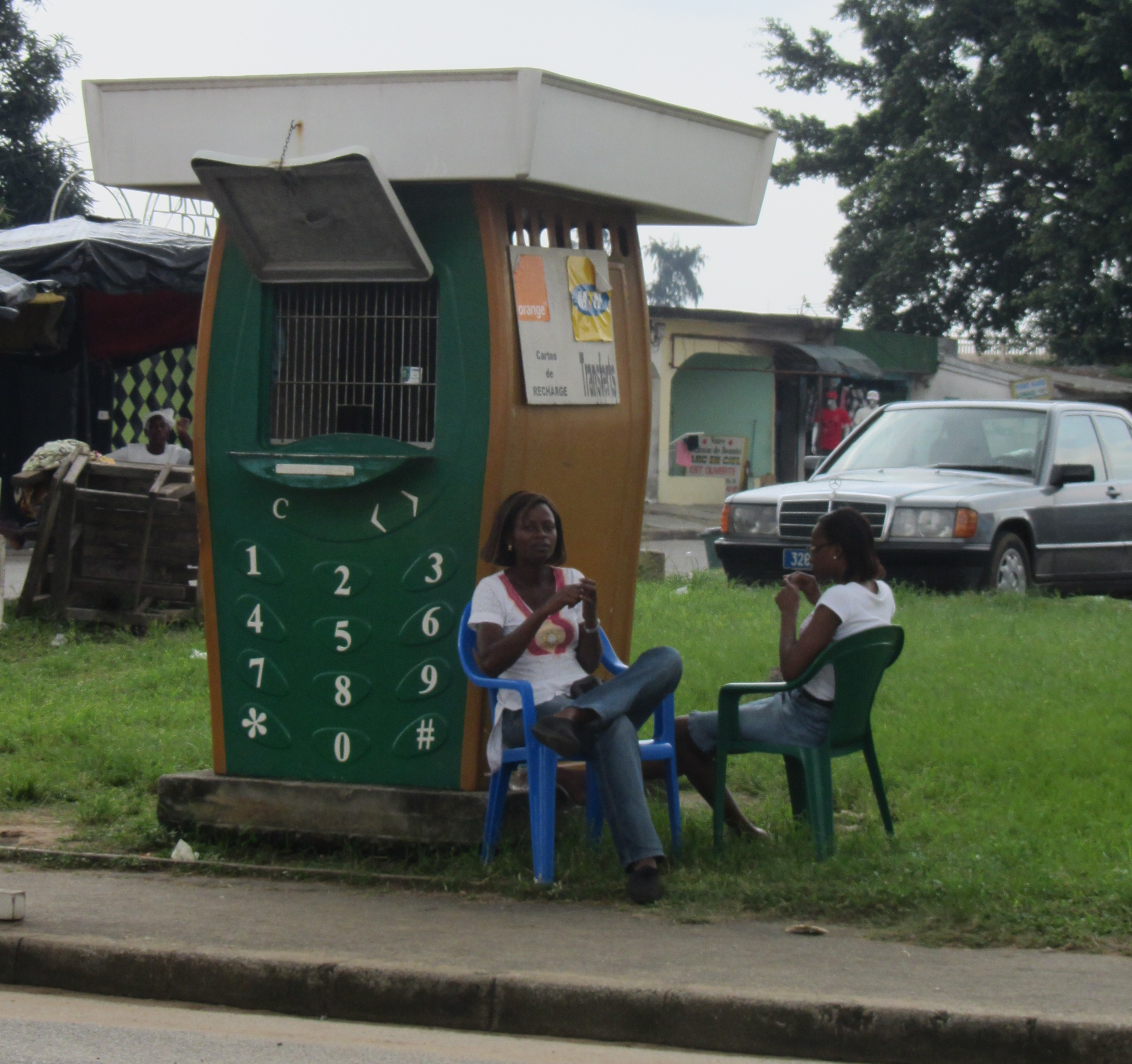 Sellers of cellular credit, Abidjan (Côte d'Ivoire)